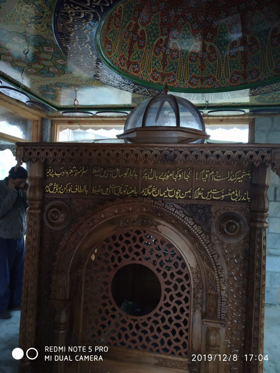 Inside view of Shrine of Hazrat Mir Syed Hafeezullah Andrabi Qadri Naqshbandi (RA)